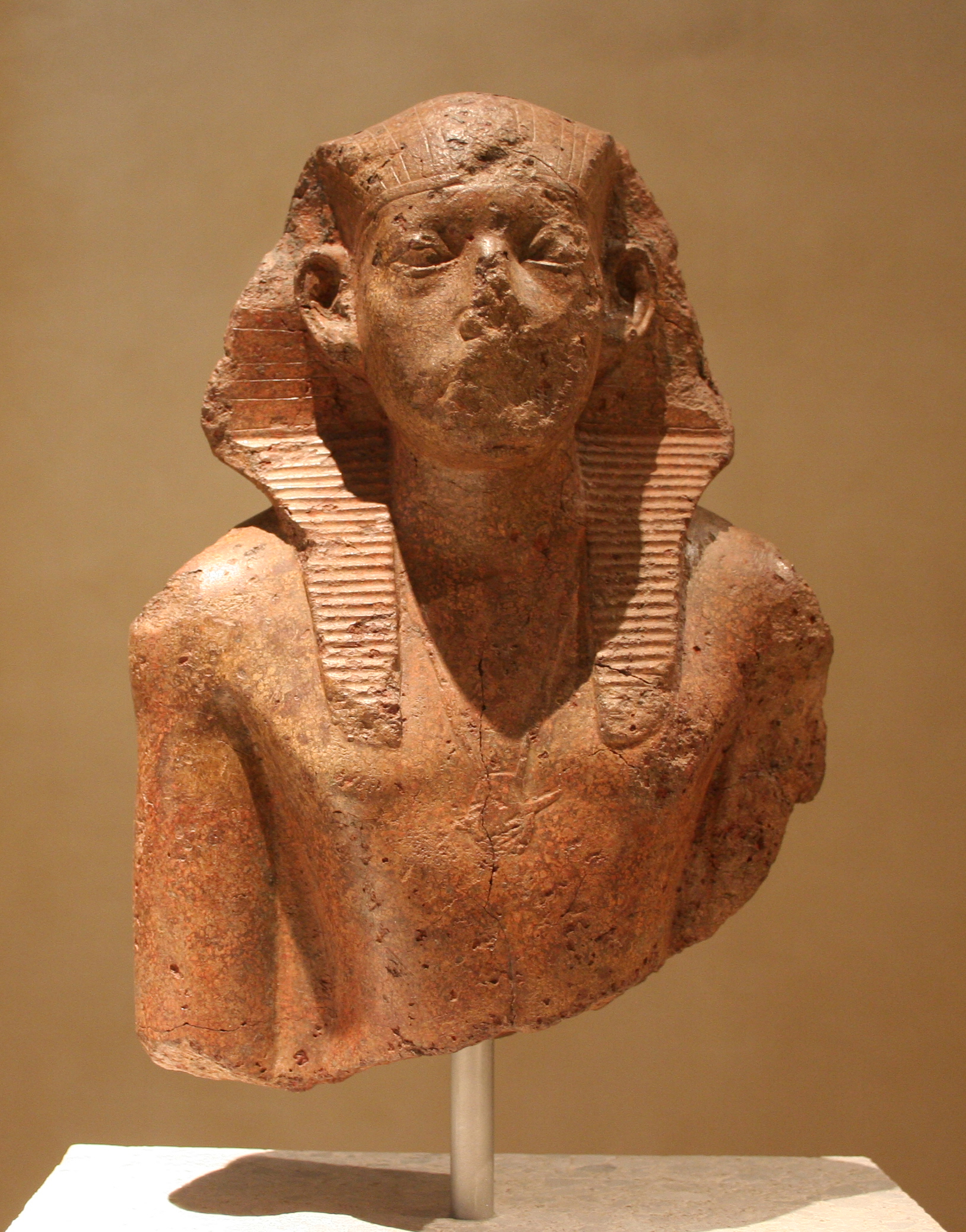 Ägyptisches Museum (Egyptian Museum), Berlin